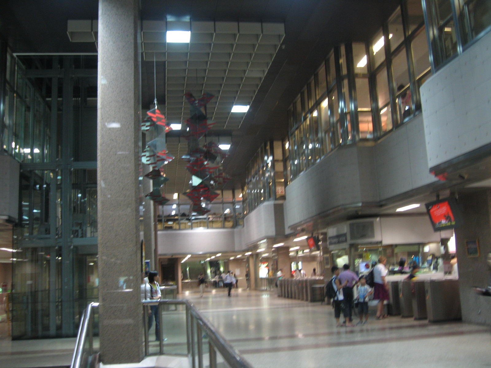 Tanjong Pagar MRT Station.